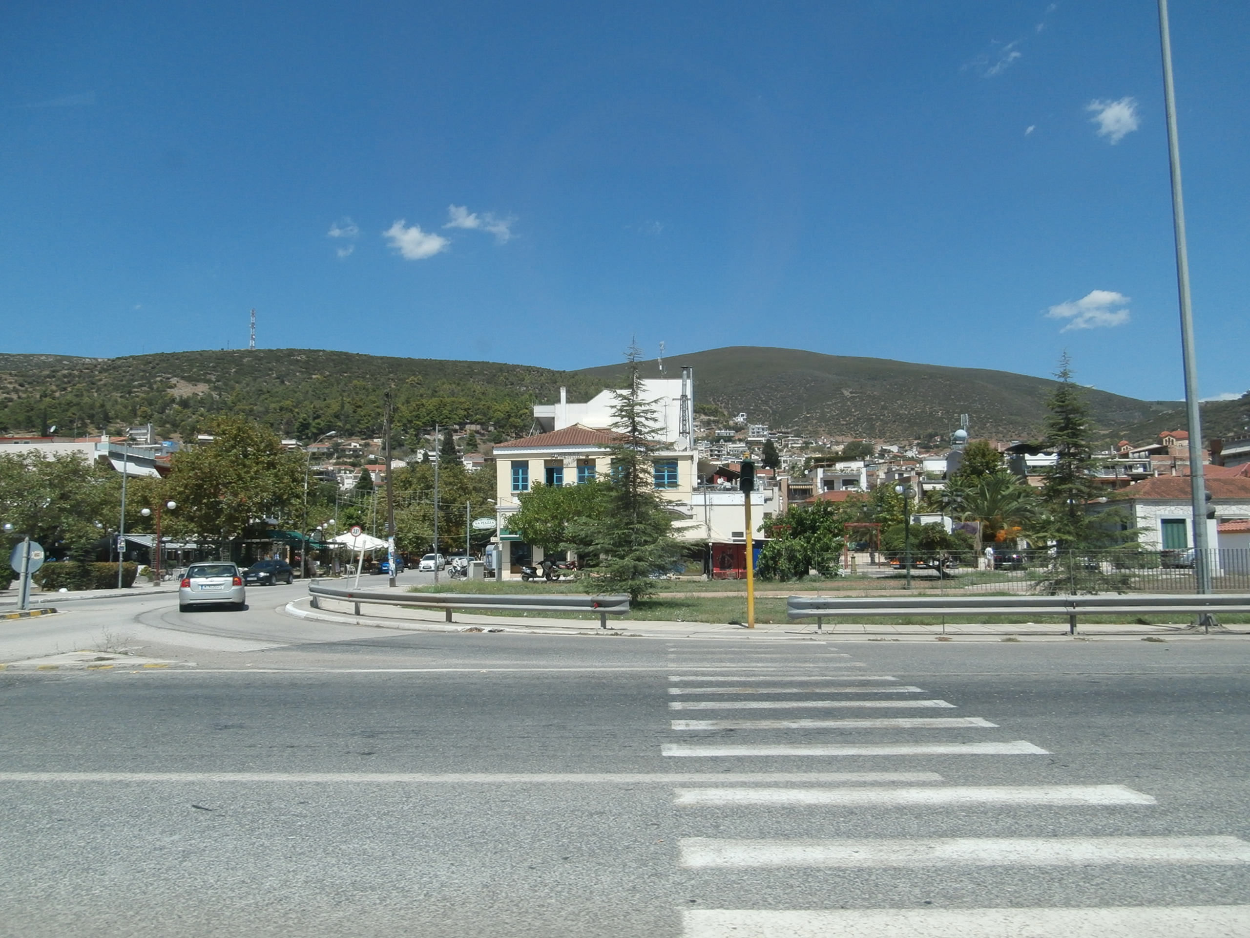 View of Stylida from national road.